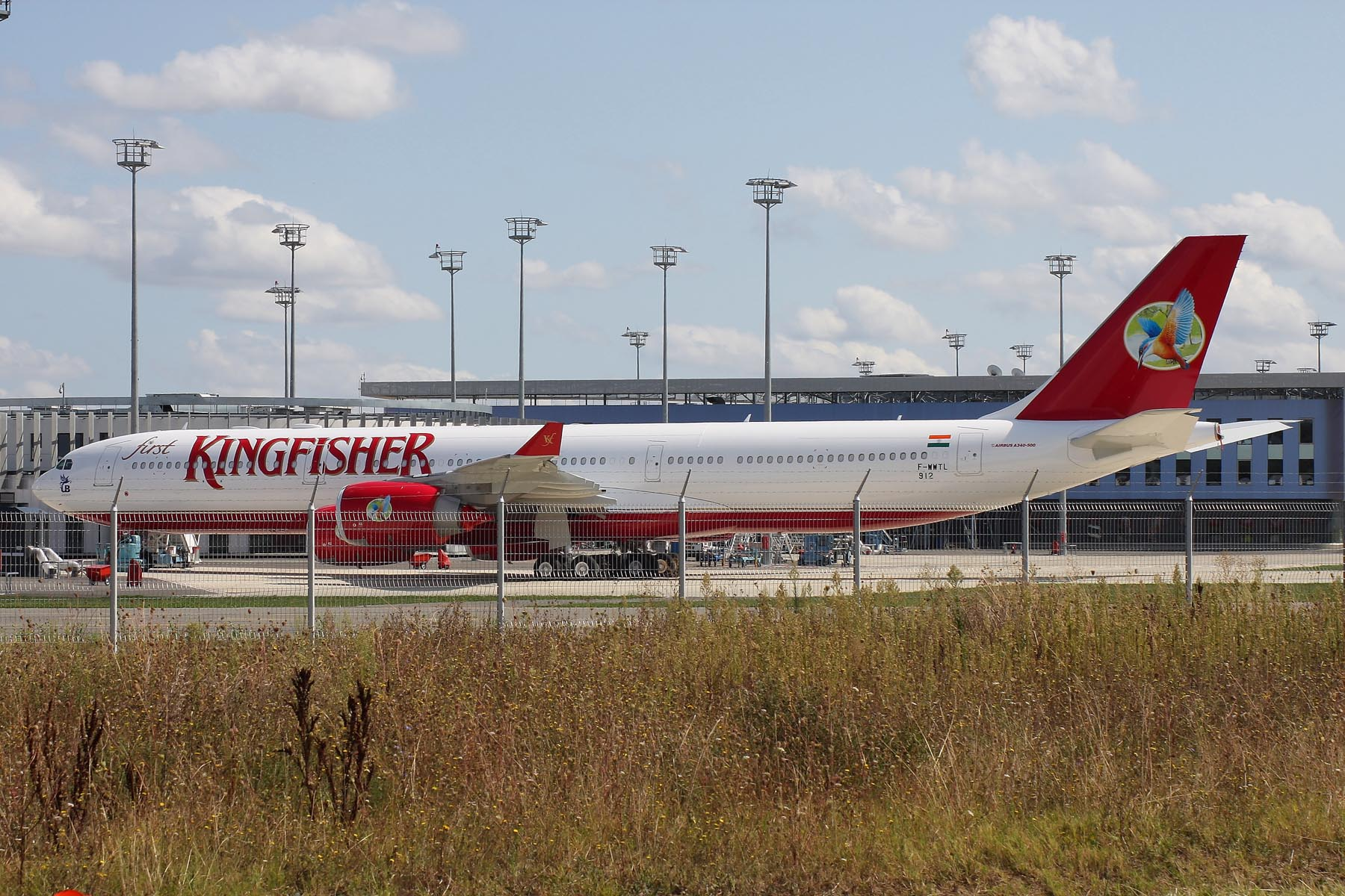 Shame about the fence, but worth it as they won't be seen again in this c/s